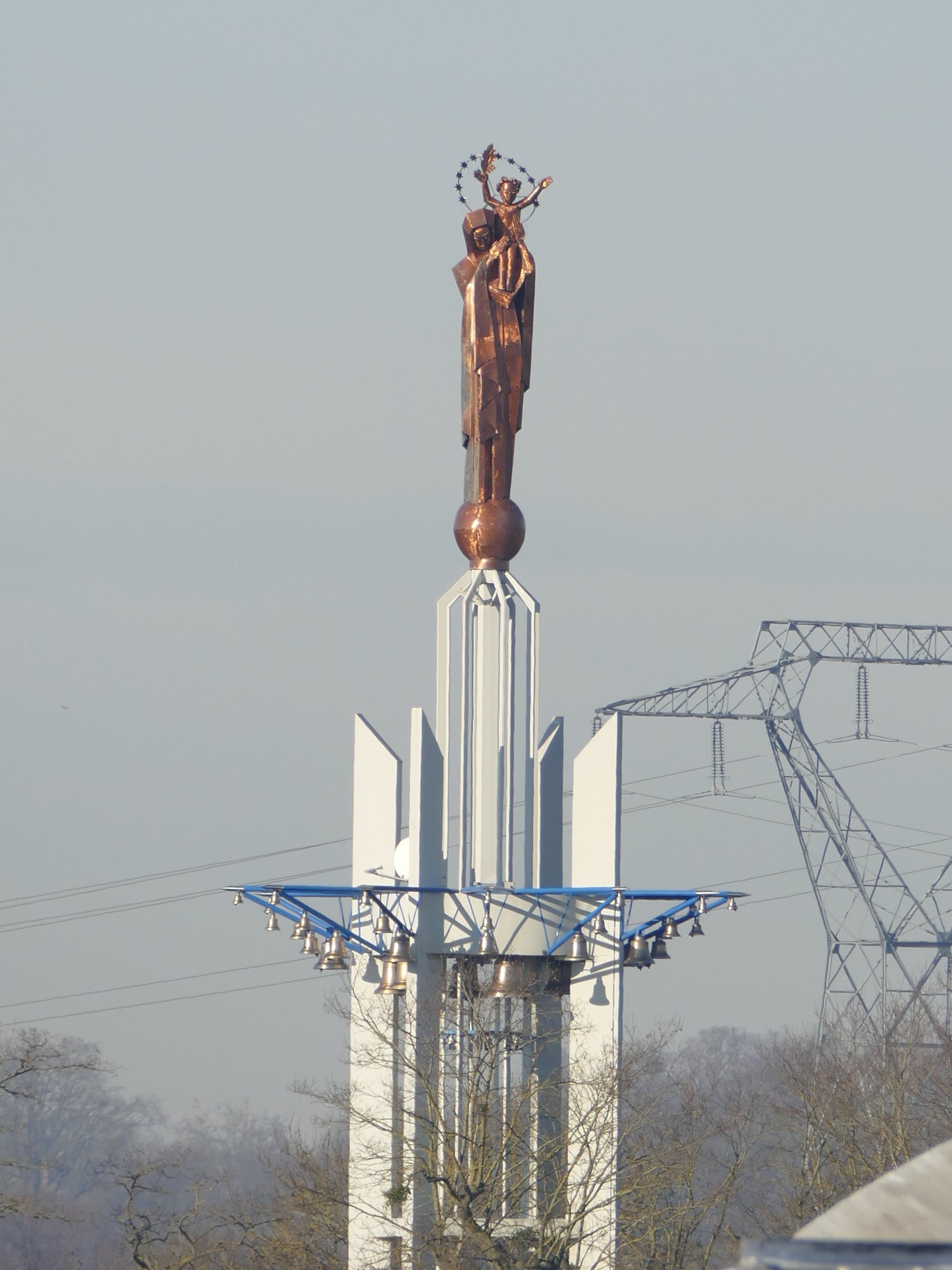 Statue in Baillet-en-France (Val d'Oise, Île-de-France, France).